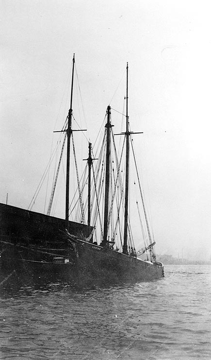 The civilian schooner-rigged pilot boat Louise No. 2 around the time the United States Navy acquired her for service as the patrol vessel .